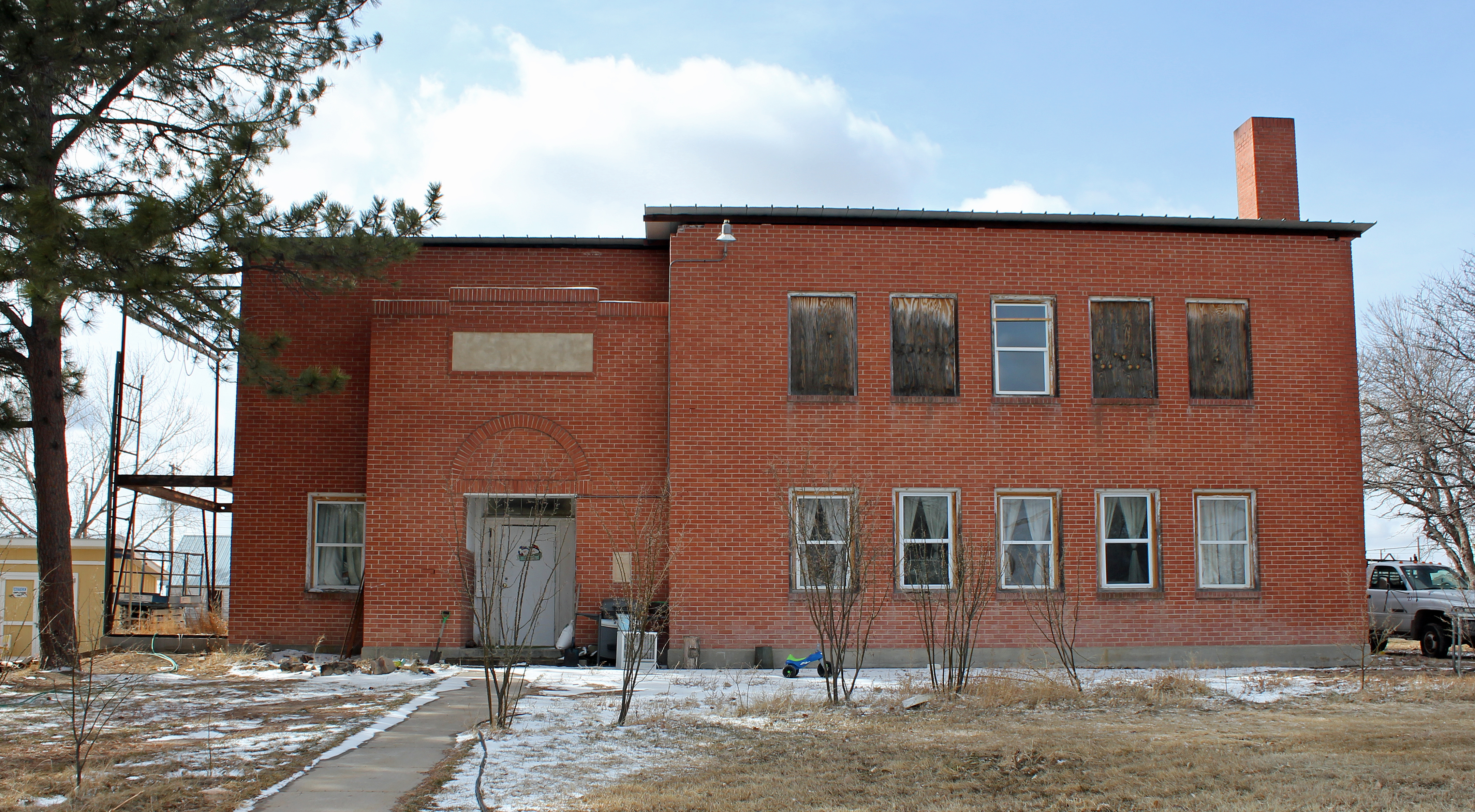 The Akron Gymnasium, located at West 4th Street and Custer Avenue in Akron, Colorado. The property, now a single-family residence, is listed on the National Register of Historic Places.